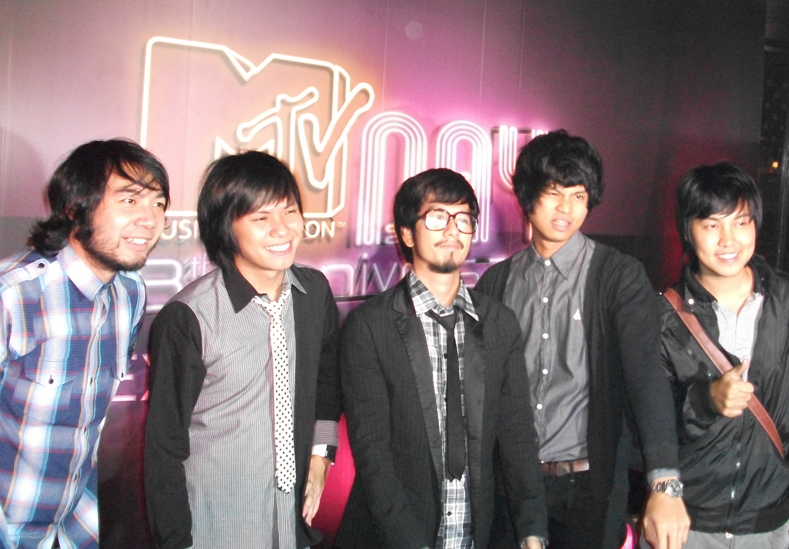 25 Hours at 8th anniversary of MTV Thailand .